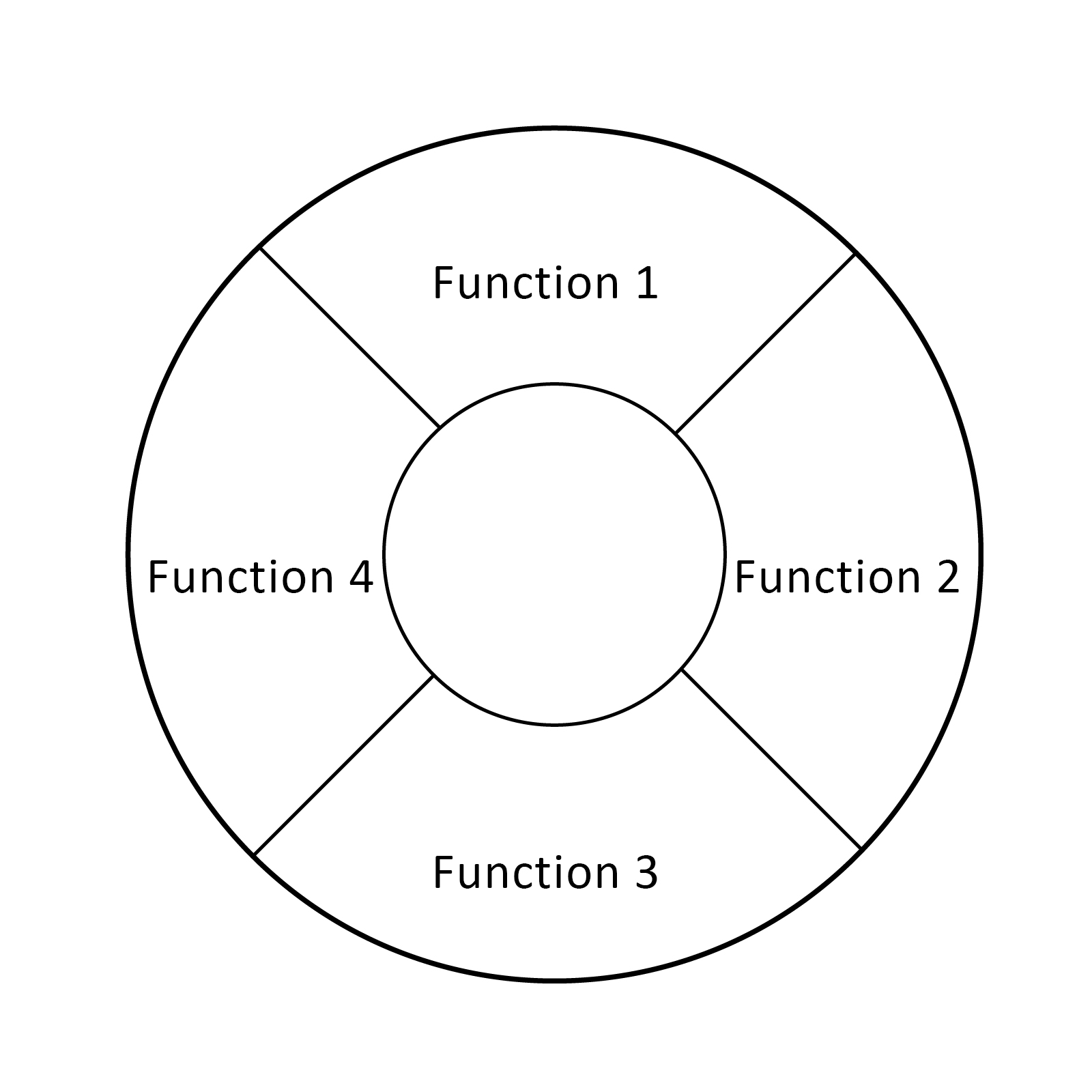 Example of a radial menu. The sectors have English labeling.